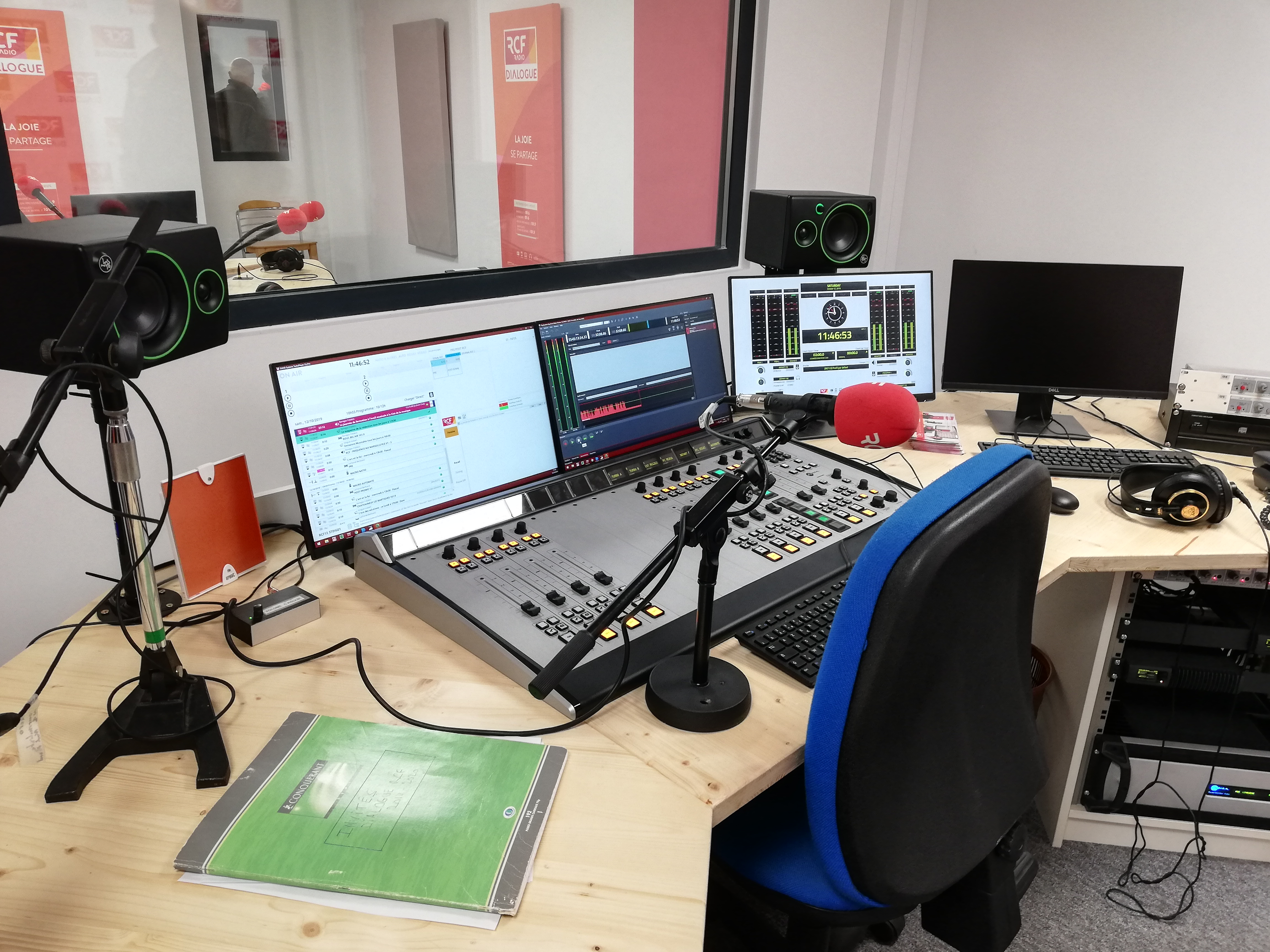 Control room of the radio station RFC Dialogue inaugurated en October 12, 2019